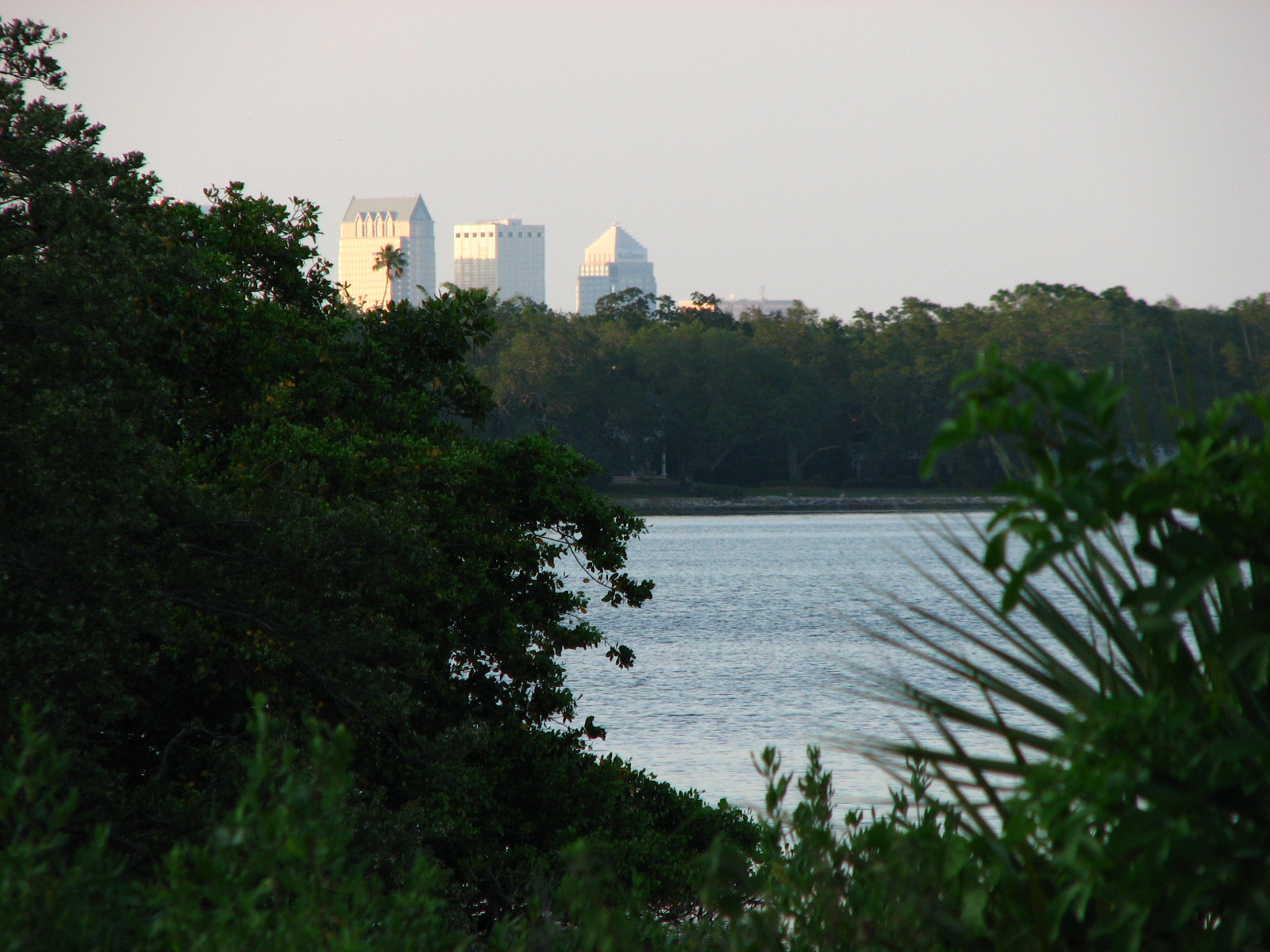 Taken in the neighborhood of Ballast Point in the City of Tampa from Bayshore Blvd. overlooking the Hillsborough Bay with downtown Tampa, Florida in the background.